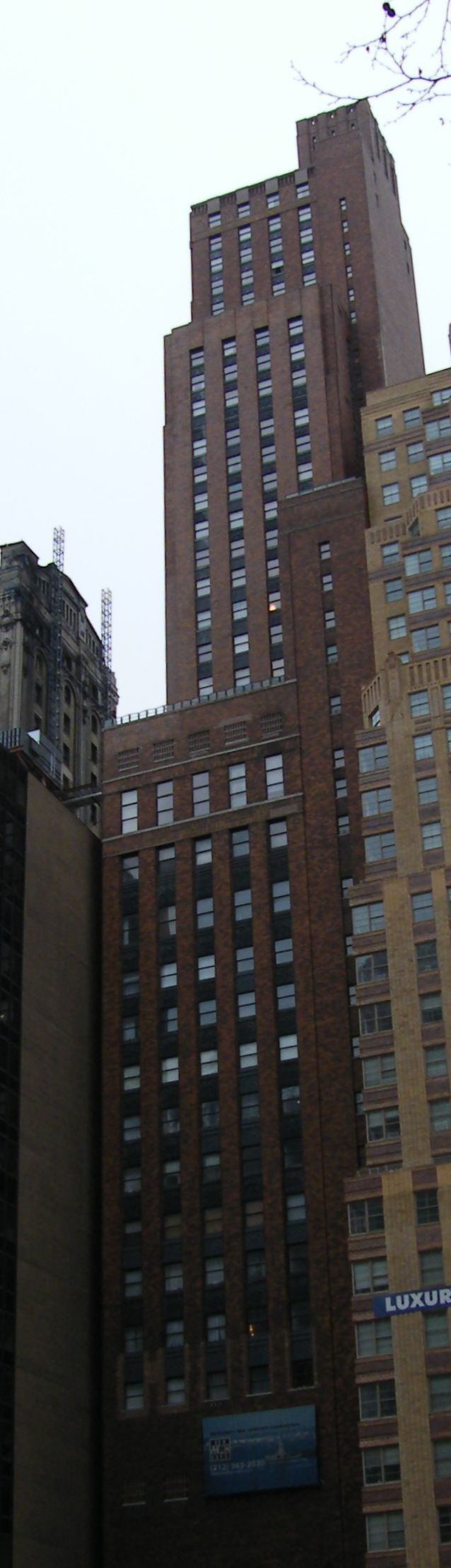 Downtown Athletic Club in New York City